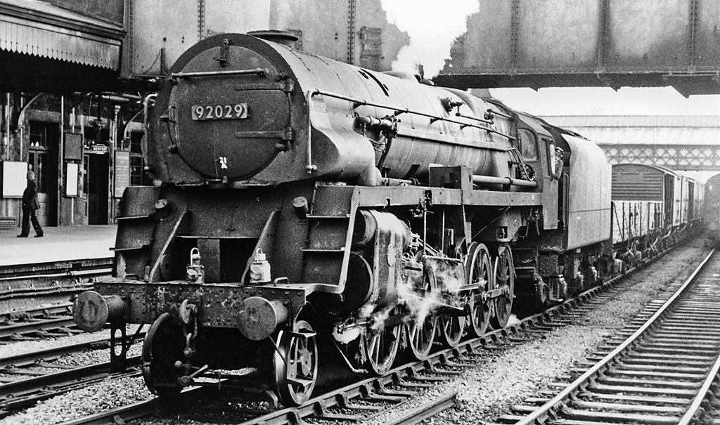 Up freight train at Newport High Street Station, near to Newport/Casnewydd, Great Britain. View SW, towards Cardiff etc. A BR Standard 9F 2-10-0, No. 92029 (formerly fitted with a Franco-Crosti special boiler), brings a Class E freight along the Up Through line.